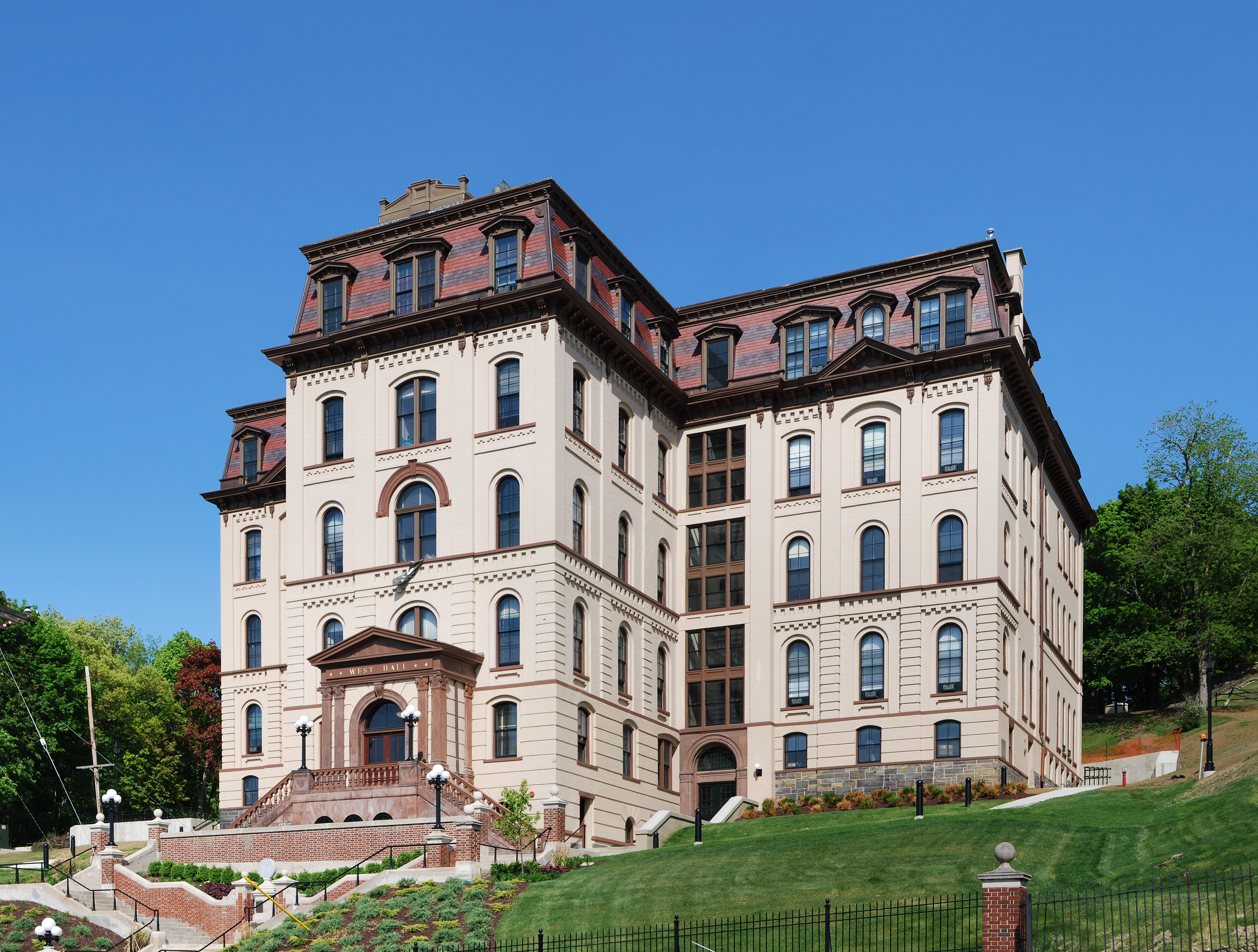 West Hall, formerly the Old Troy Hospital, is currently a building on the campus of Rensselaer Polytechnic Institute, located in Troy, New York, United States